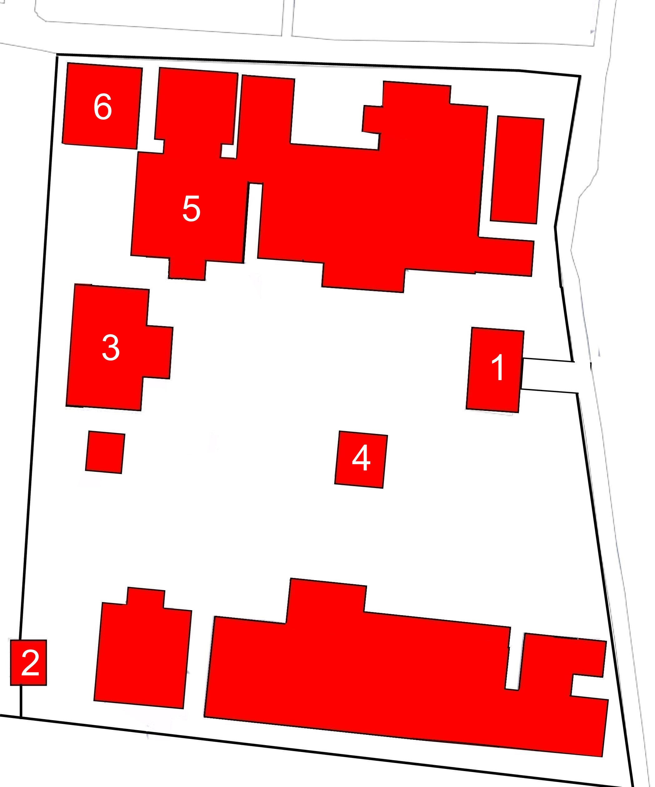 Layout of Ichinomiya-ji at Takamatsu